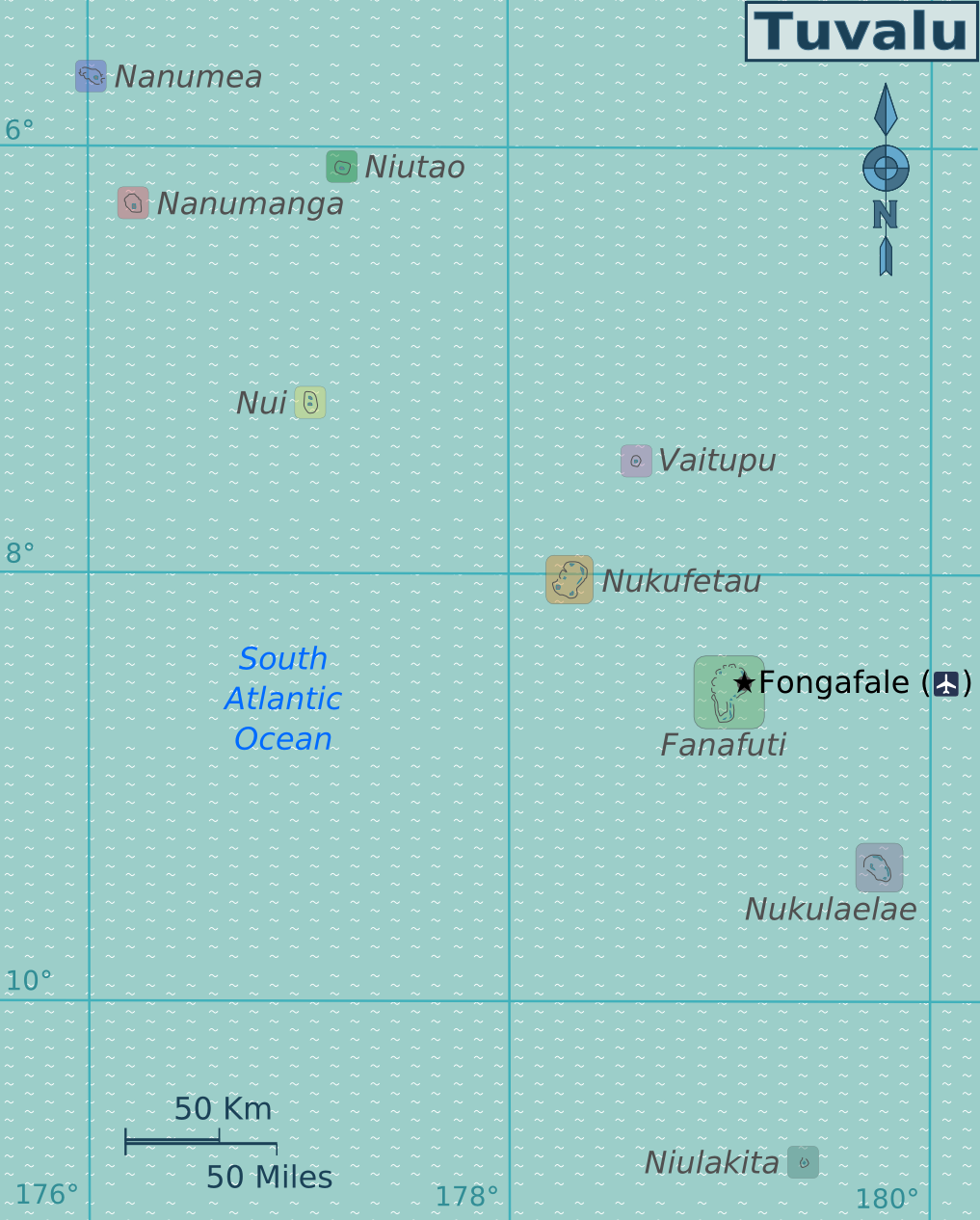 Map of Tuvalu. Islands and atolls of Tuvalu, Tuvalu Map of: Tuvalu¤.